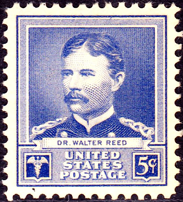 Dr_Walter_Reed_1940_Issue-5c.jpg